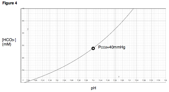 Description: Figure 4. A titration curve at a specific PCO2.